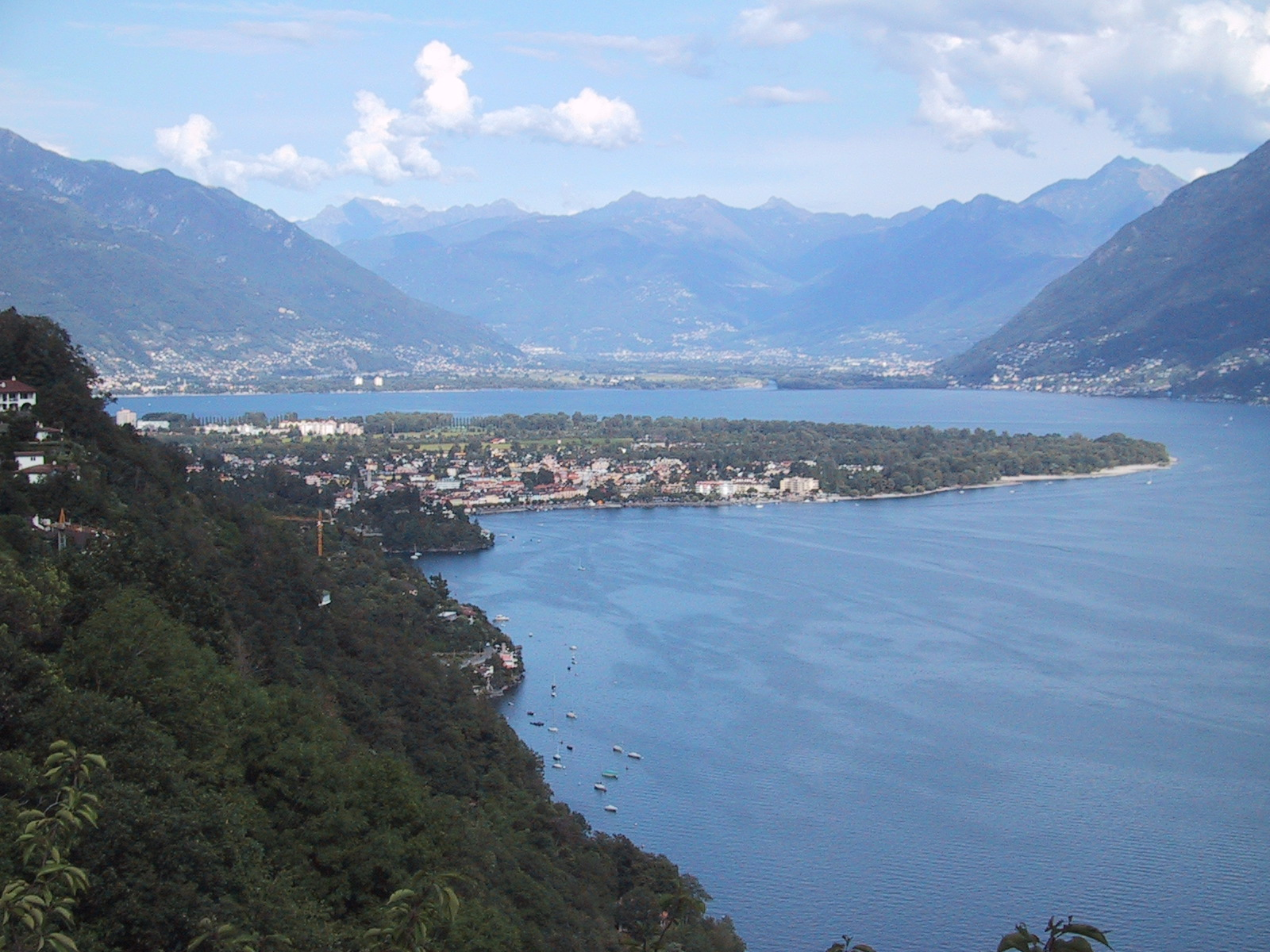 Ascona and the delta of the Maggia